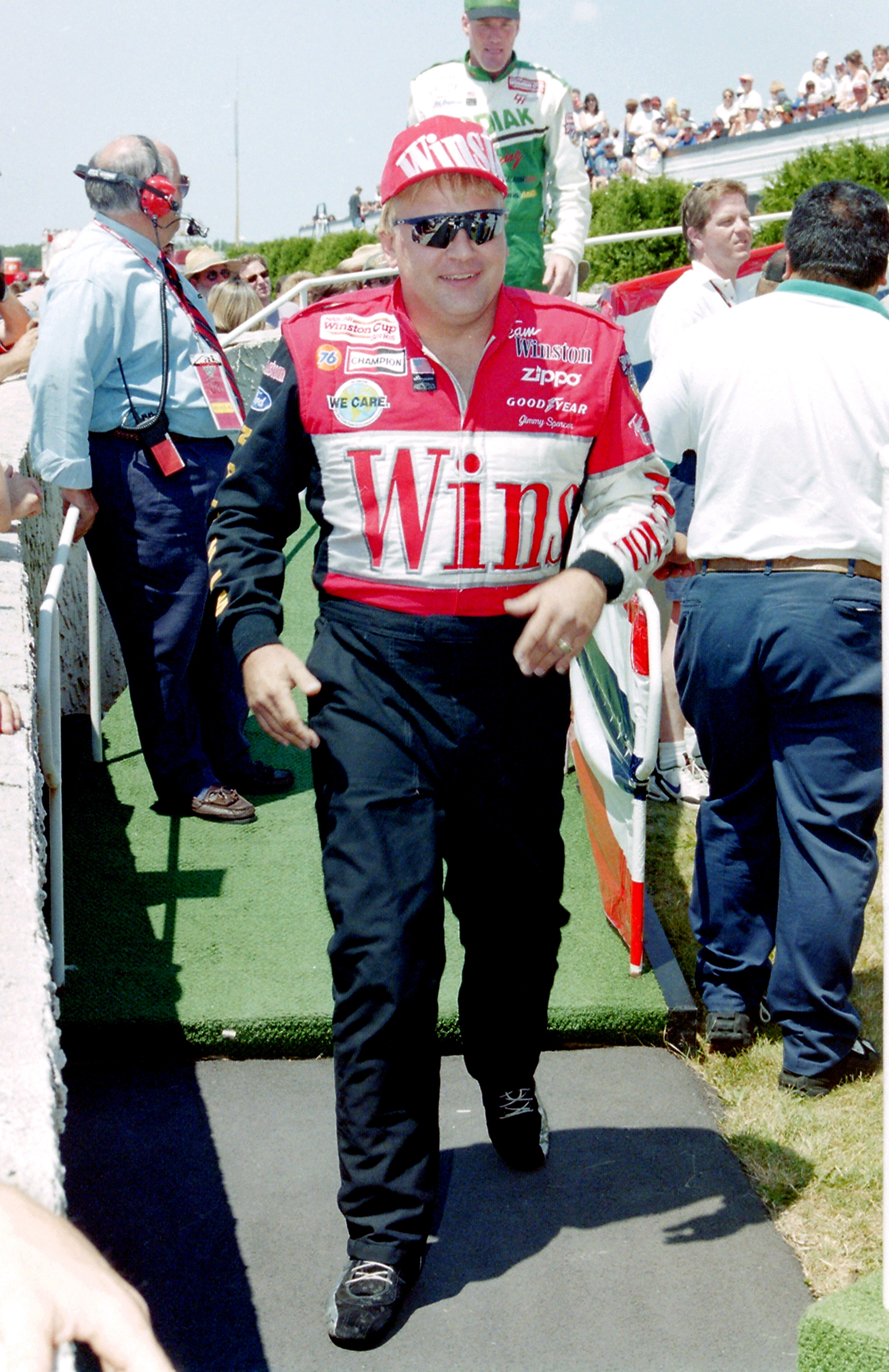 Jimmy Spencer while he was an American NASCAR driver.